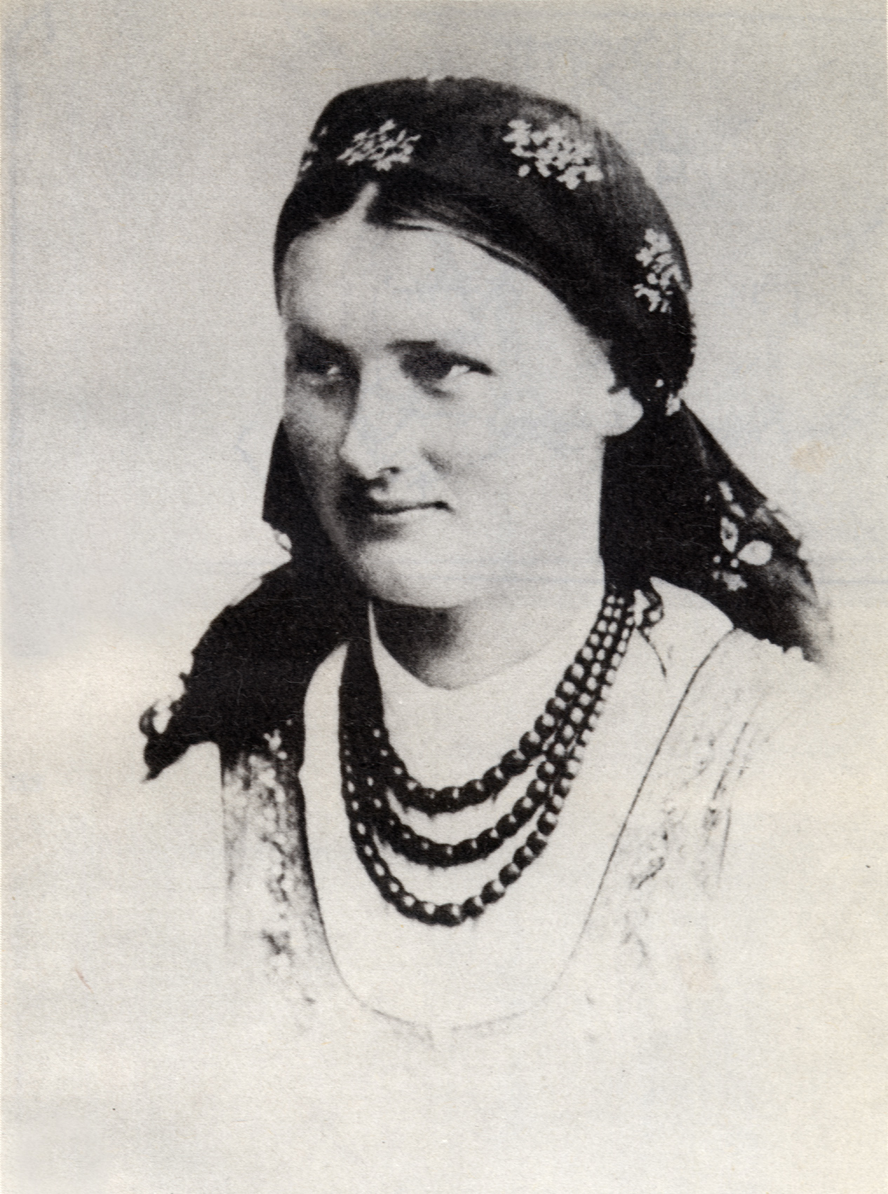 Jadwiga Mikołajczykówna, wife of the Polish poet Lucjan Rydel